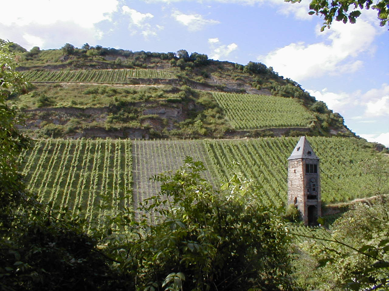 One of the town's original towers stands in the middle of the vineyards north of Bacharach. This view is taken along the path back from the castle.